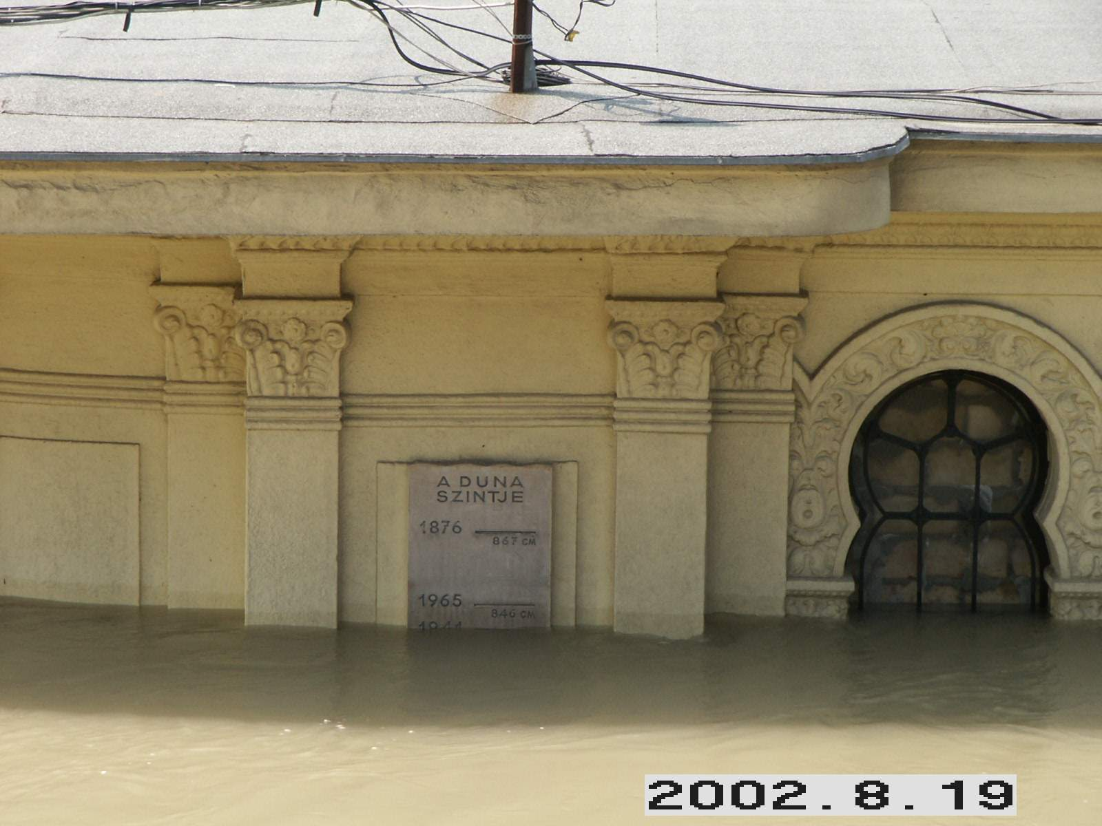 Vigado ter, Budapest, Hungary. Flood on tn the Danube 2002